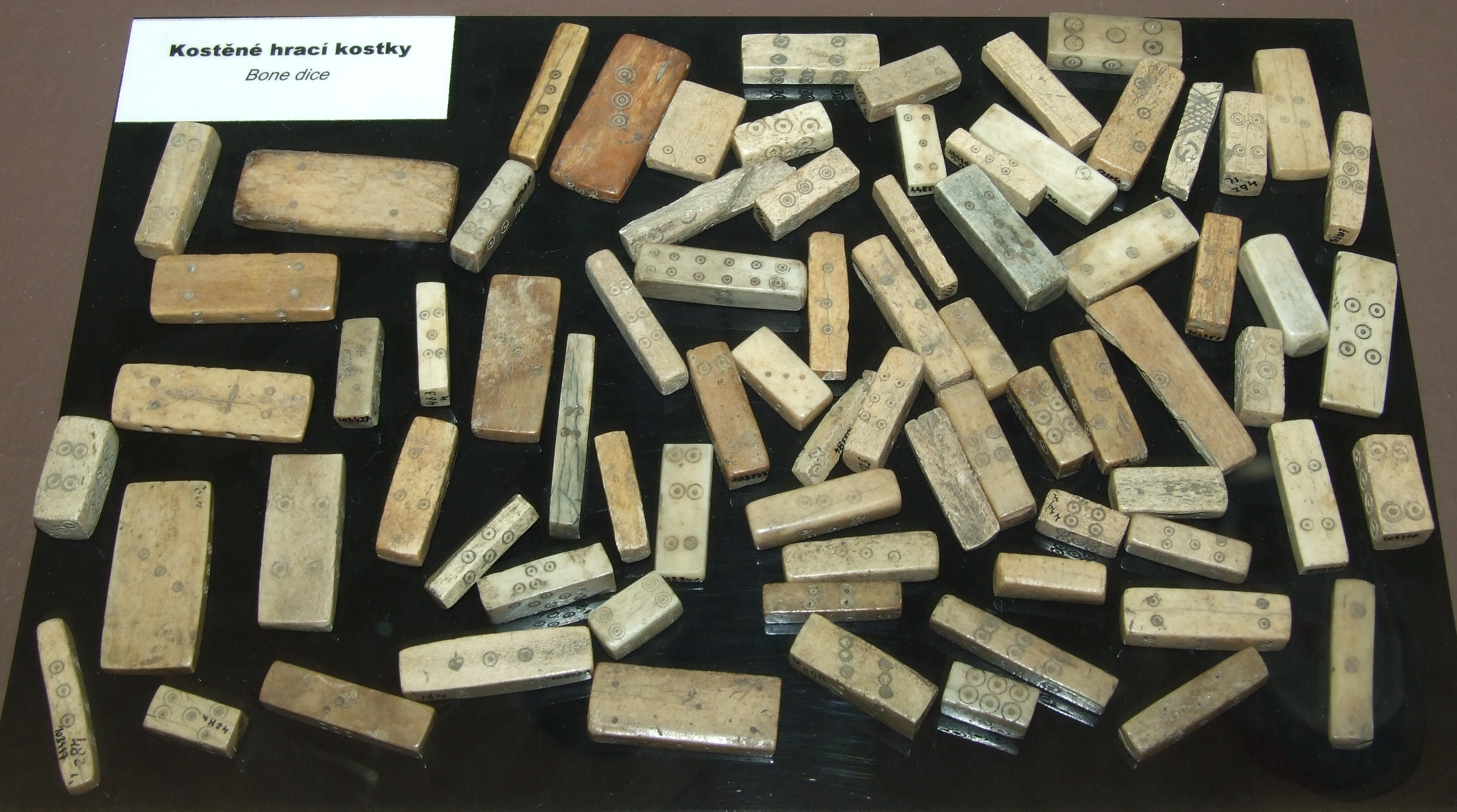 Prehistoric Times of Bohemia, Moravia and Slovakia, National Museum in Prague